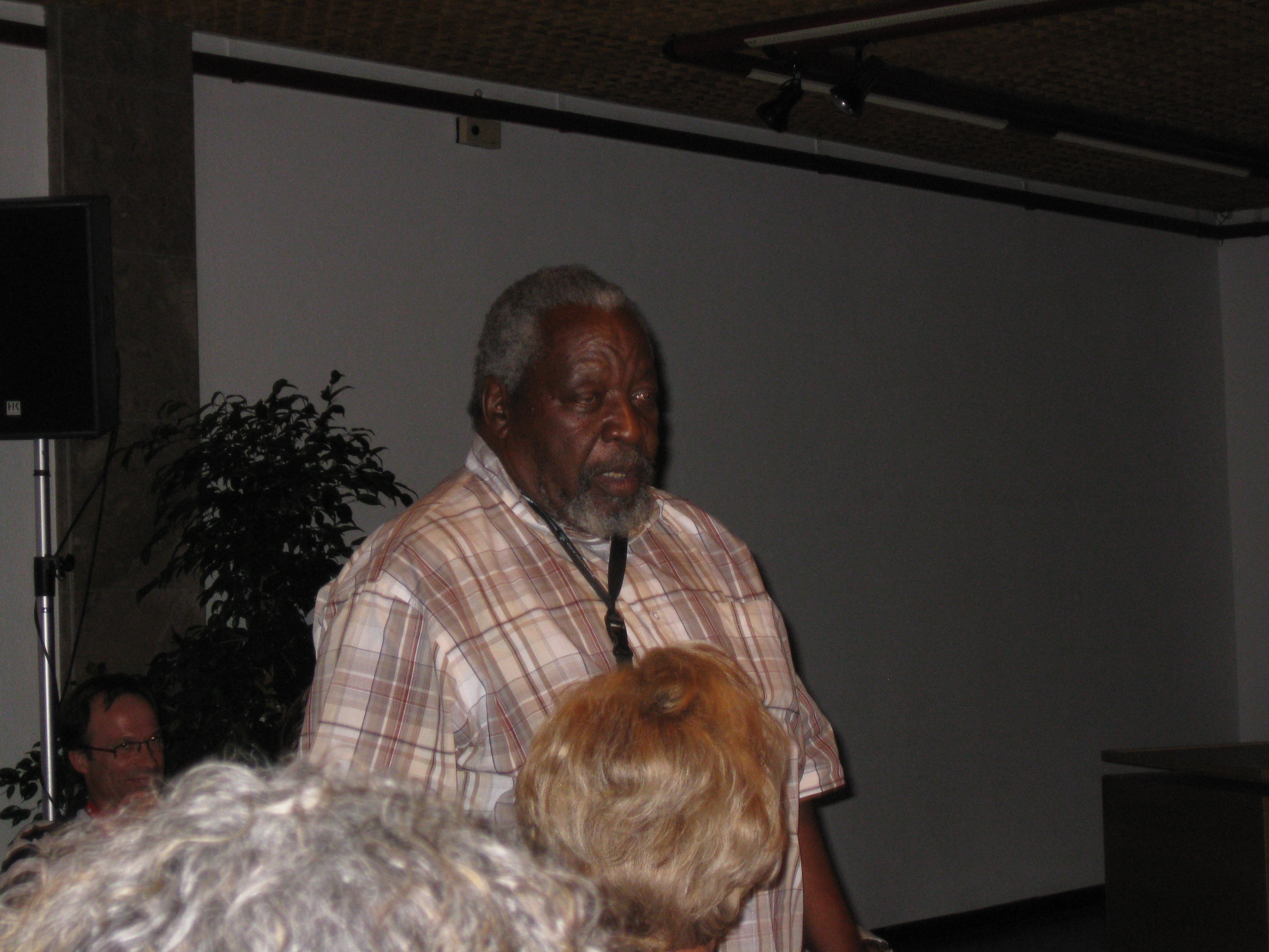 Malangatana Ngwenya 2009 in Grandola, Portugal